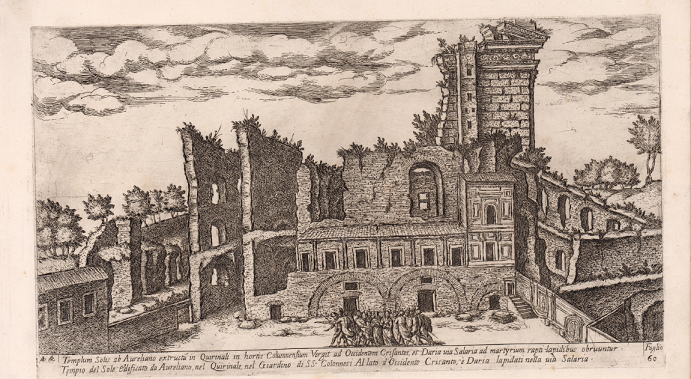 Tempio Solis by Aloisio Giovannolli (17th-century)